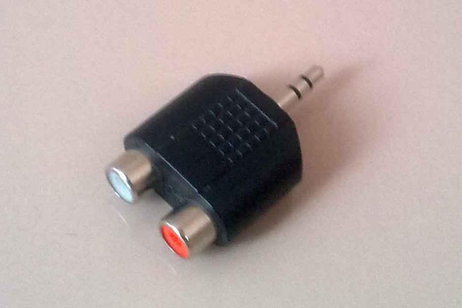 Adapter stereo with Cinch-female and Klinke-male, for connecting Cinch-male to Klinke-female. Chinch: red = right channel, white or black = left channel. Klinke: tip = left channel, 1. Ring = right channel, sleeve = Masse.